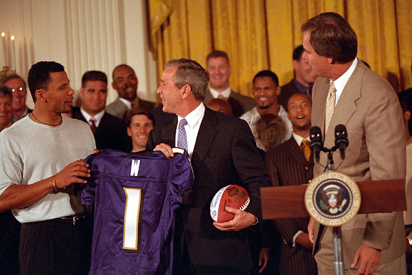 President George W. Bush accepts a jersey and football from the NFL Champion Baltimore Ravens on Thursday, June 8 at the White House. Cornerback Rod Woodson is presenting Bush with the jersey while coach Brian Billick looks on.